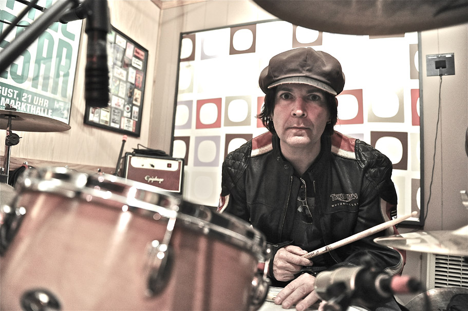 Marc Danzeisen still shot at his drum kit